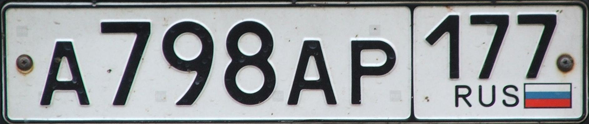 Vehicle licence plate from Russia. "177" stands for Moscow.